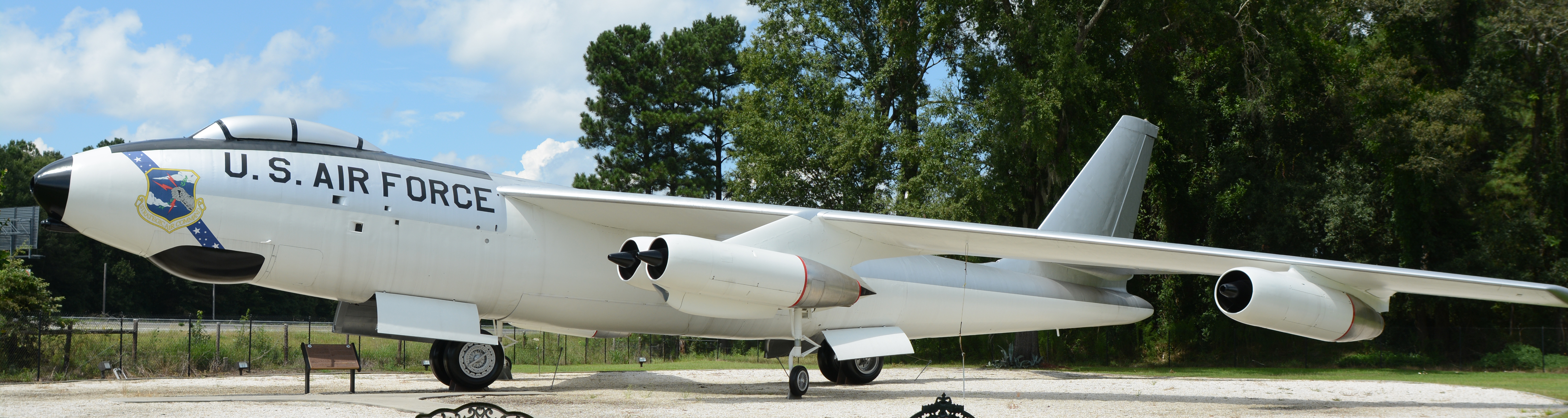 Boeing B-47 at the Mighty Eighth Air Force Museum, Pooler, Georgia, US